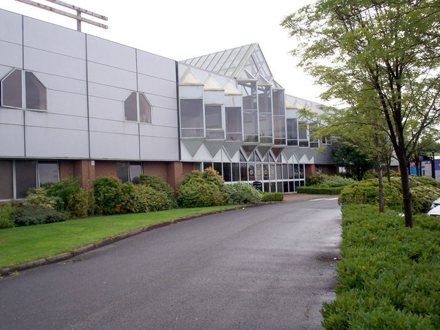 Tyrone Crystal Factory Manufacturer of "Truely Irish" contemporary and classic Irish Crafted Crystal. The crystal pieces are mouth blown by master craftsmen in the Co. Tyrone factory. They can be purchased in the factory shop as gifts and delivered worldwide.